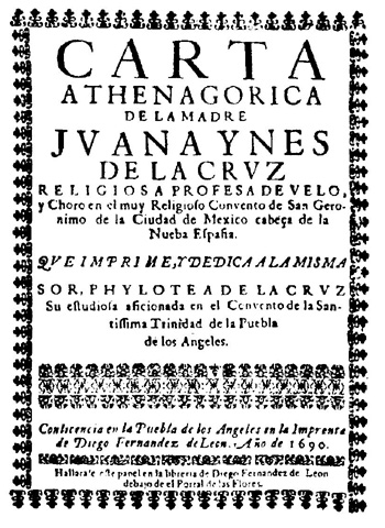 Carta atenagórica, Sor Juana Inés de la Cruz, México, 1690